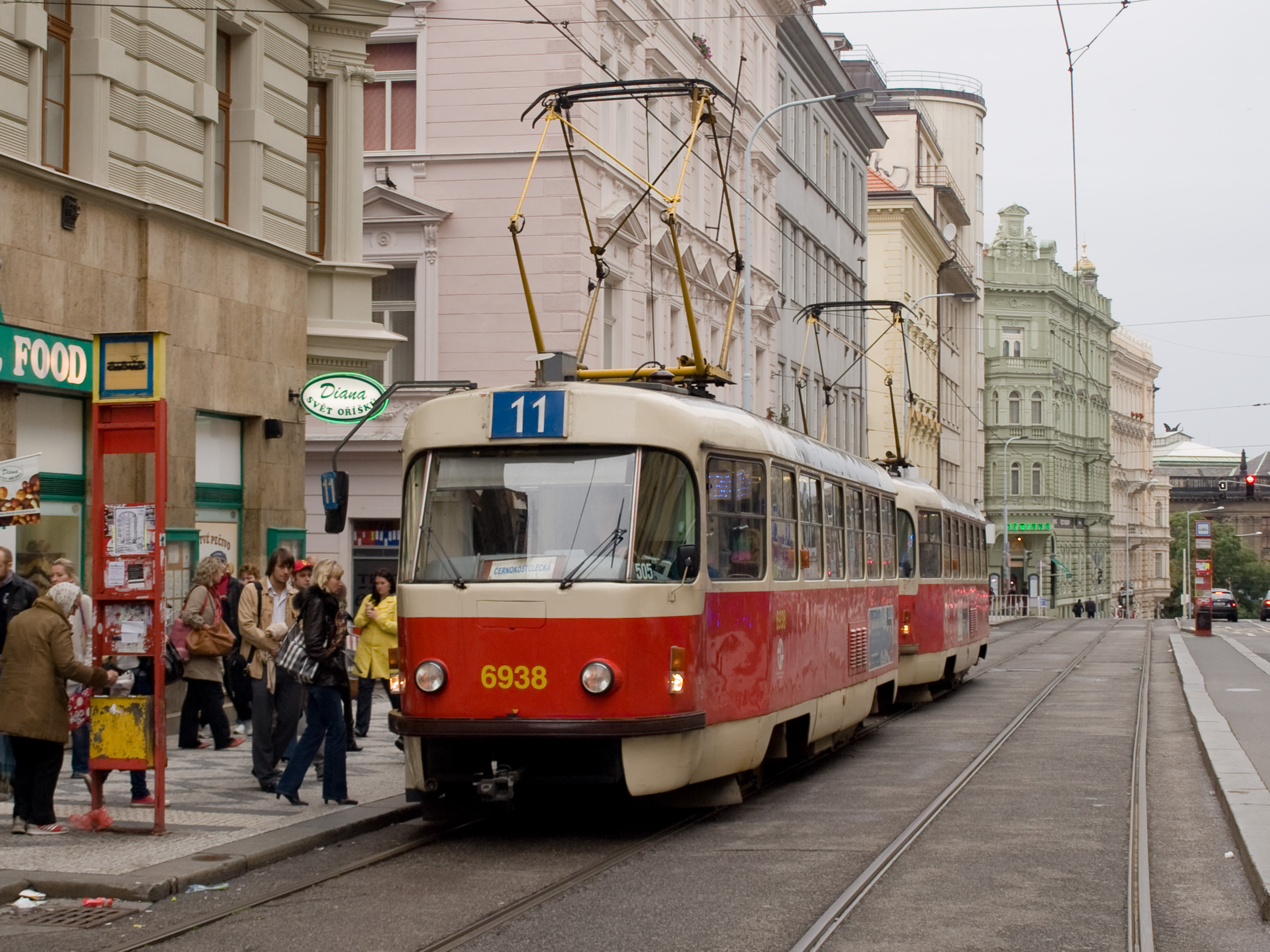 Tatra T3 in I.P.Pavlova tram stop, Prague